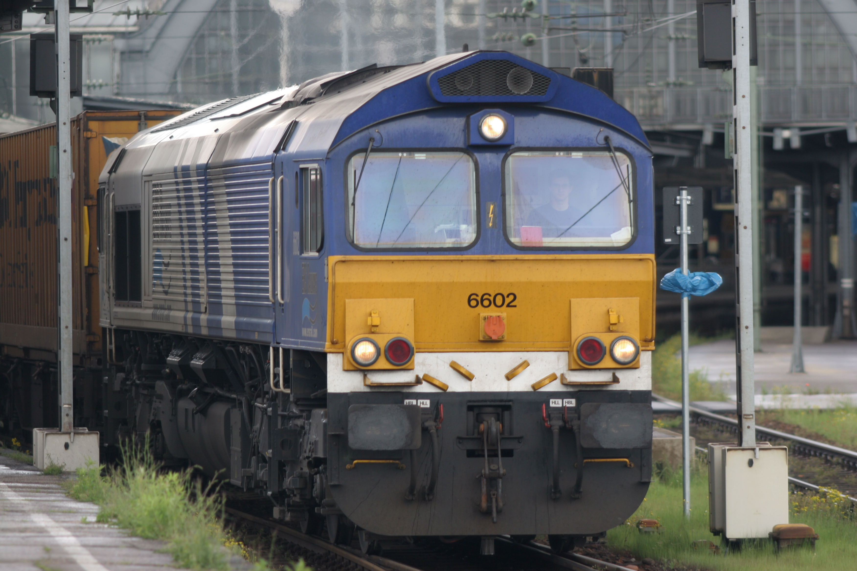 GM-EMD JT42CWR "Blue Bullet" of ERS Railways B.V. in Karlsruhe Germany. Marketed as "Series 66" as they were first introduced to Britain as class 66.